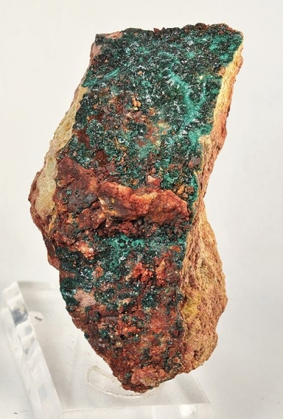 Paratacamite Locality: San Francisco Mine (Beatrix Mine), Caracoles, Sierra Gorda District, Tocopilla Province, Antofagasta Region, Chile (Locality at ) Size: 10.2 x 5.0 x 3.1 cm. Paratacamite is a relatively uncommon secondary copper chloride, found in especially arid climates. Scintillating forest-green and light green paratacamite microcrystals richly cover the oxidized cabinet-sized rhyolite matrix on this excellent specimen collected by Terry Scenics from near the co-type localities in Chile. Uncommon in this richness. Ex. Terry Szenics Collection.